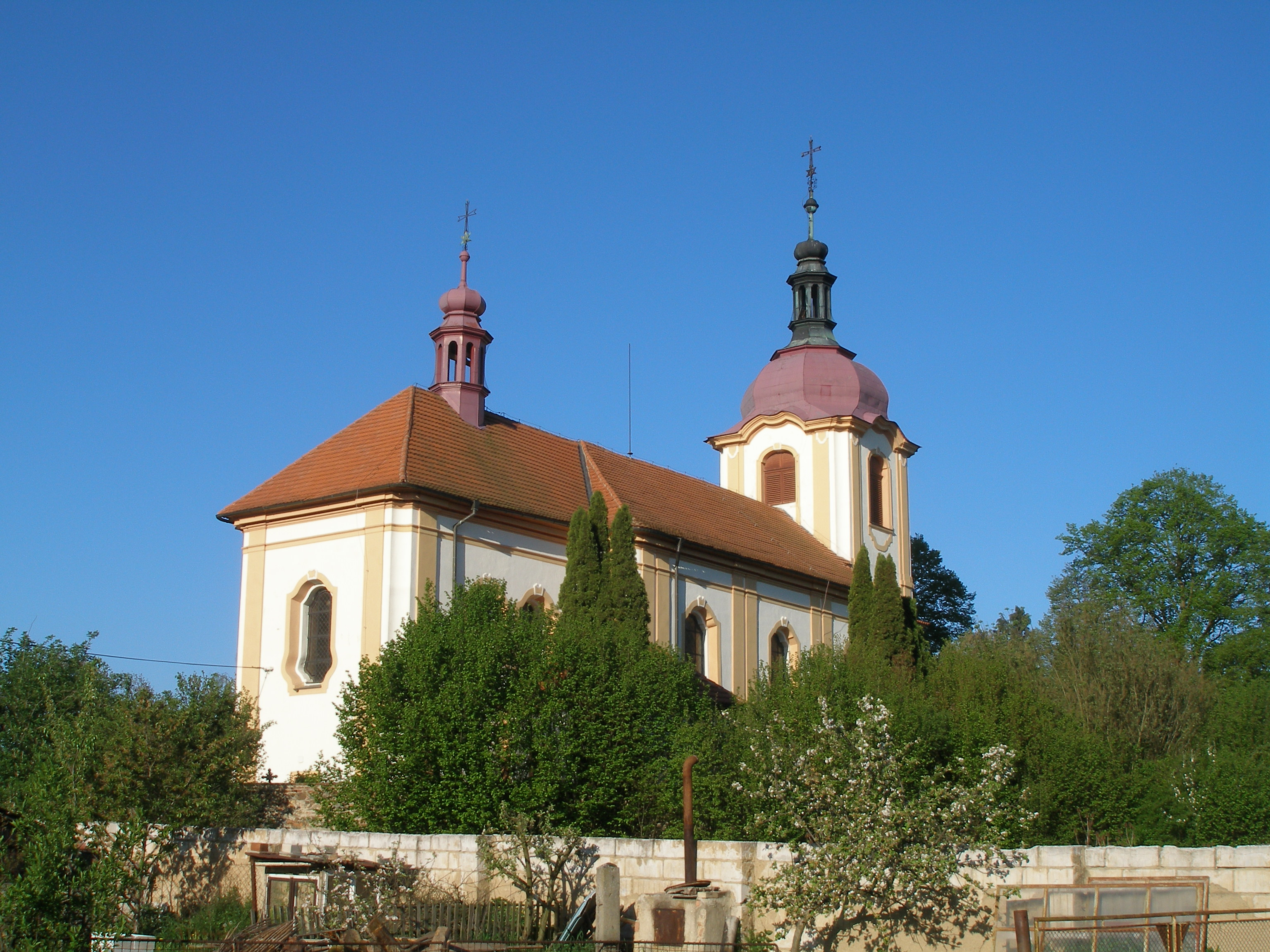 Starý Knín, North-Eastern view of the St. Francis church